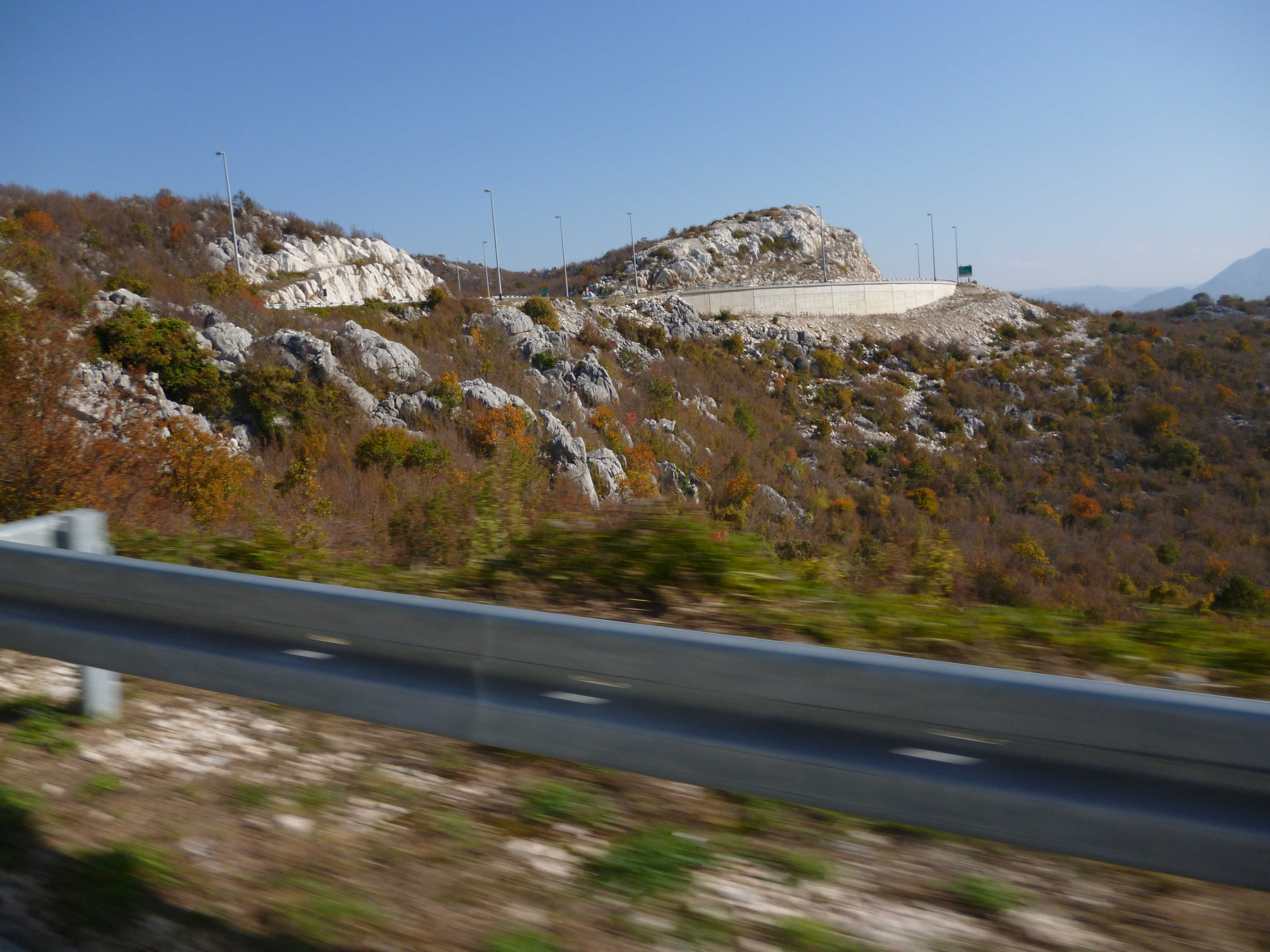 Motorway A1